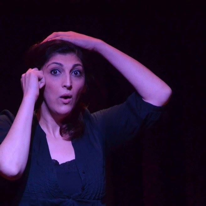 Zahra Noorbakhsh being interviewed by GN PRI